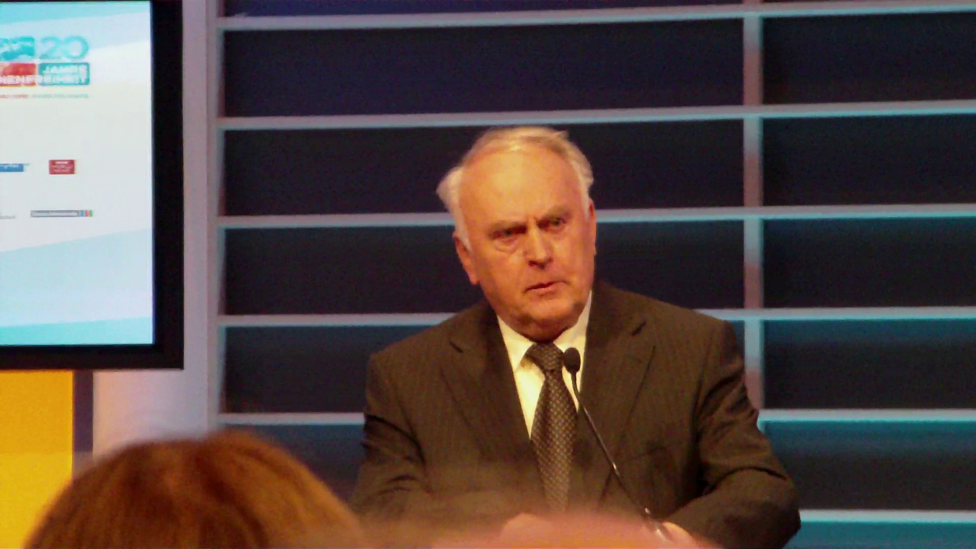 German polititian Wolfgang Böhmer